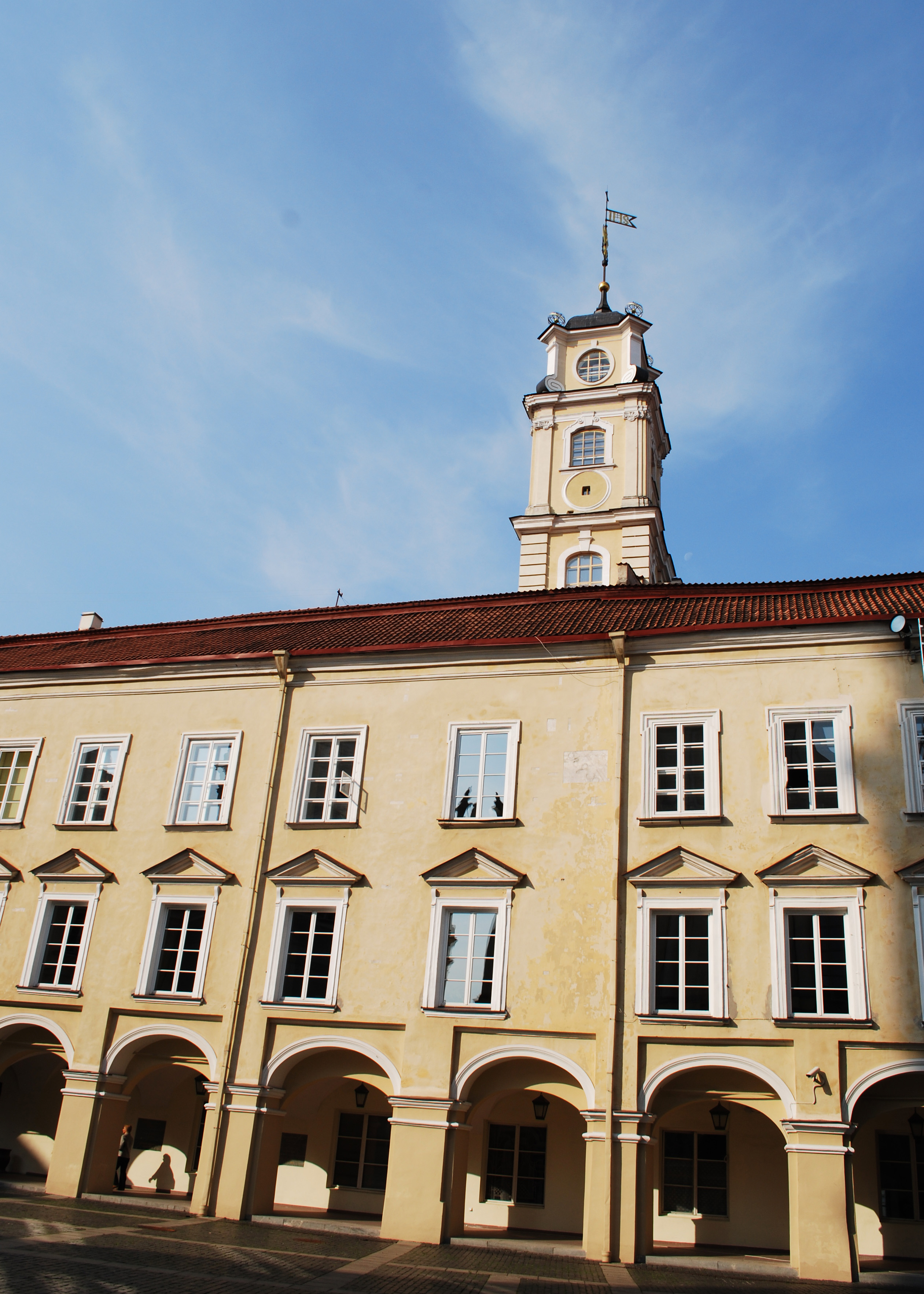 Didysis VU Filologijos fakulteto kiemas